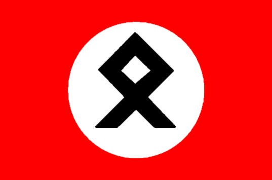 Flag of Avanguardia Nazionale